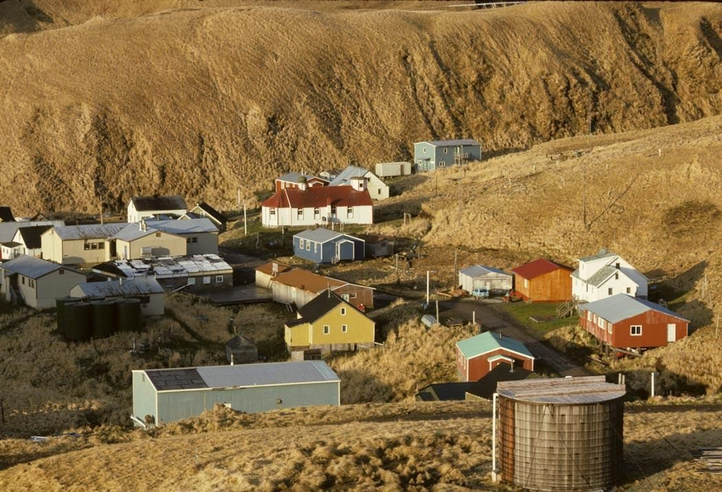 Image title: Aerial view of a village on Atka island one of the Aleutian islands Image from Public domain images website